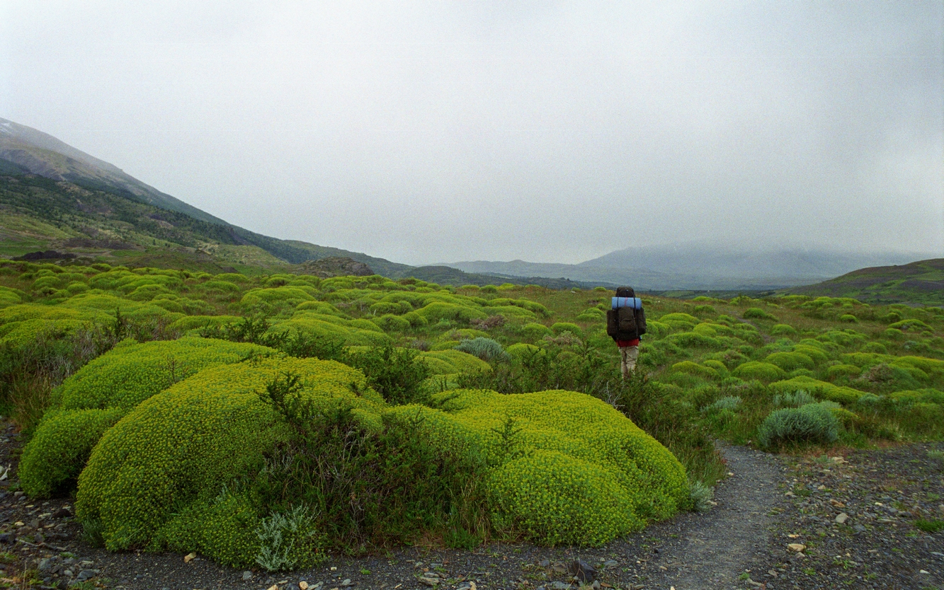 Torres del Paine National Park, Chile